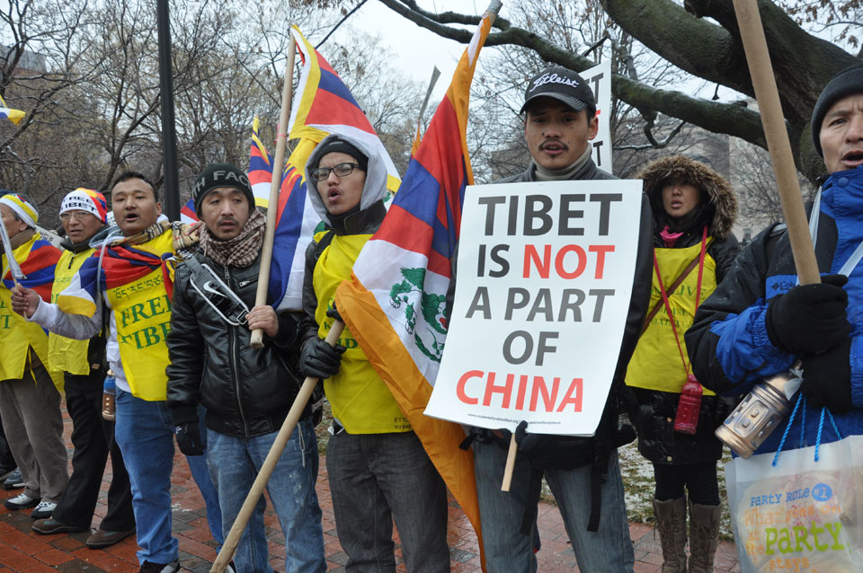 Protesters hold up signs at a rally organized by Students For A Free Tibet. The protesters marched to Lafayette Park from the Chinese Embassy. (Elisa Santana / Medill News Service)